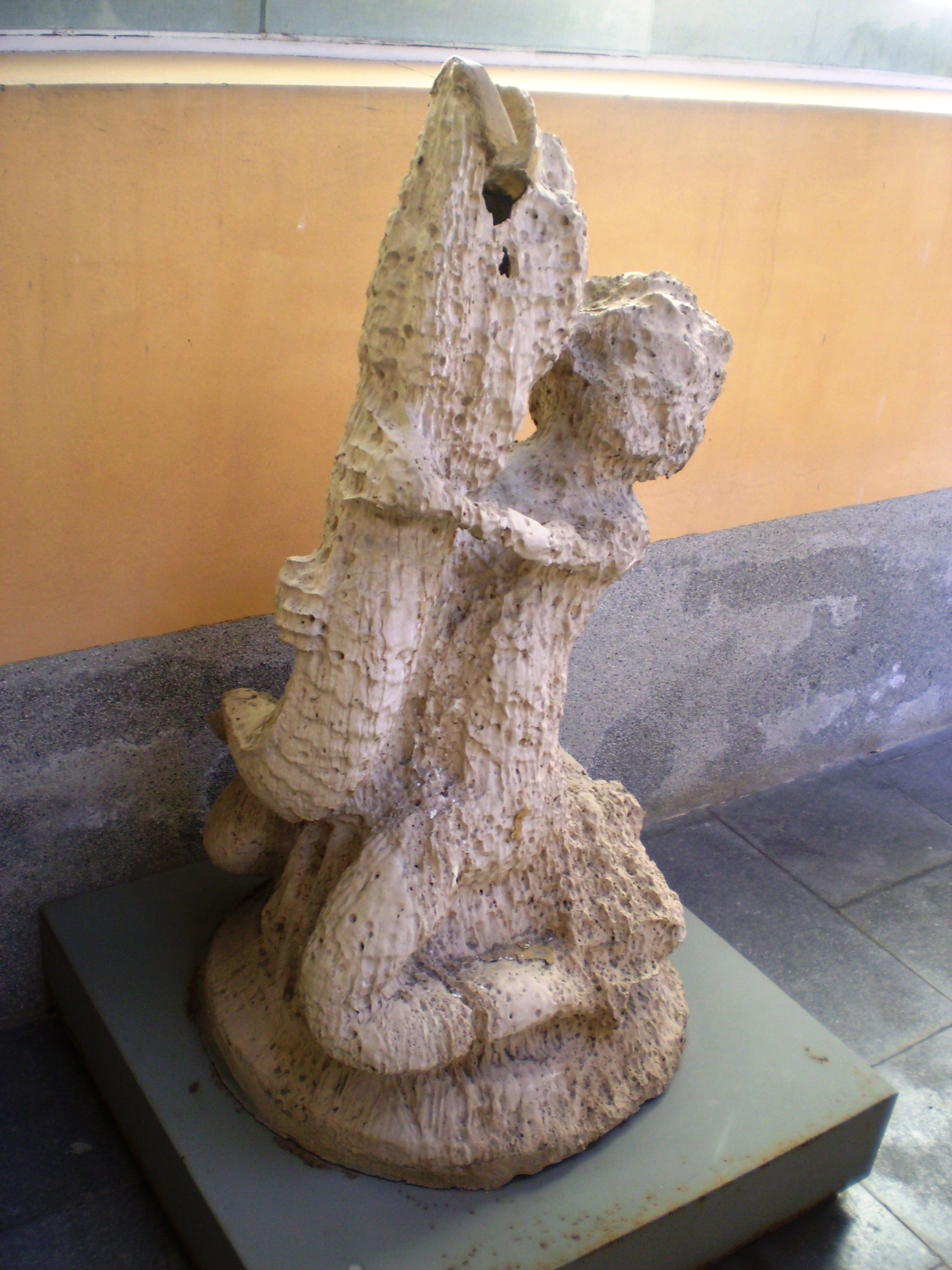 Orginal statue de "Cuatro Fuentes". Museo de los Orígenes, Madrid, Spain